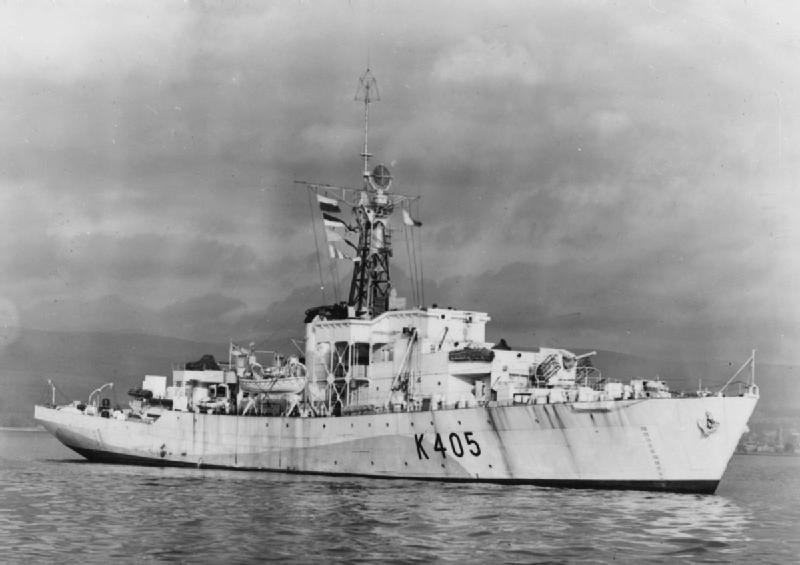 Photograph of British corvette HMS Alnwick Castle.